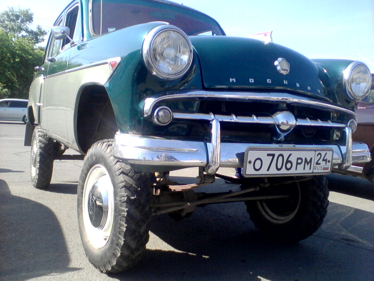 Krasnoyarsk, the main square of the city. A motor show of old-fashioned soviet cars. Moskvitsh-410, recovered.